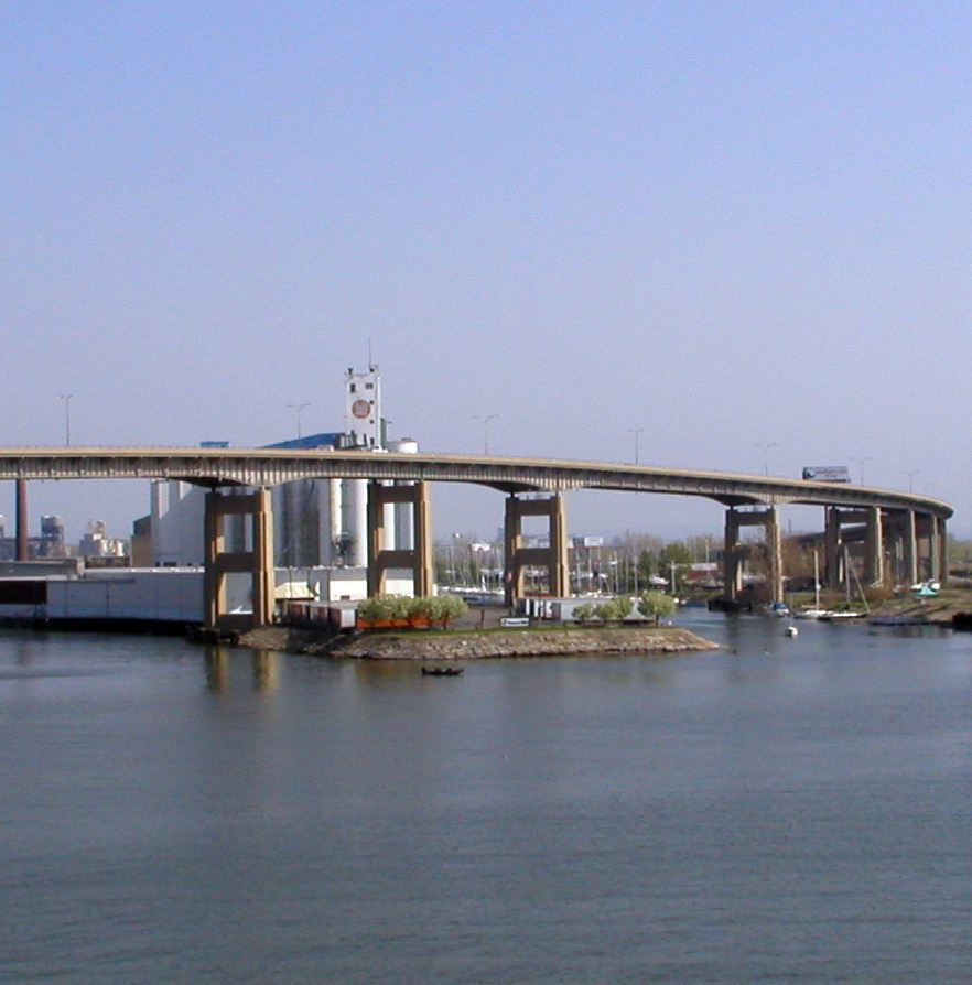 Skyway (Buffalo) as it passes over the Buffalo River (New York), just south of downtown Buffalo